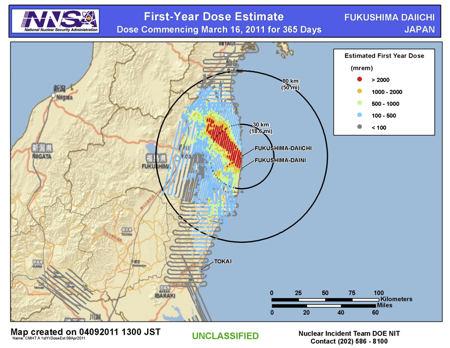 Map shows the radiation dose that would be received by people in the first year following the release of radioactive material from the Fukushima Daiichi plant. EPS's guideline for relocation is over 2000 mR/yr (20 mSv/yr) which is area marked with Red.)